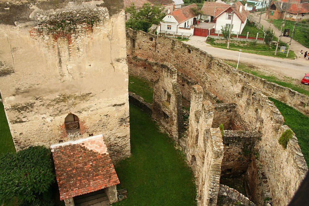 Castle walls of Câlnic fortress (Câlnic, Alba, Romania) 03